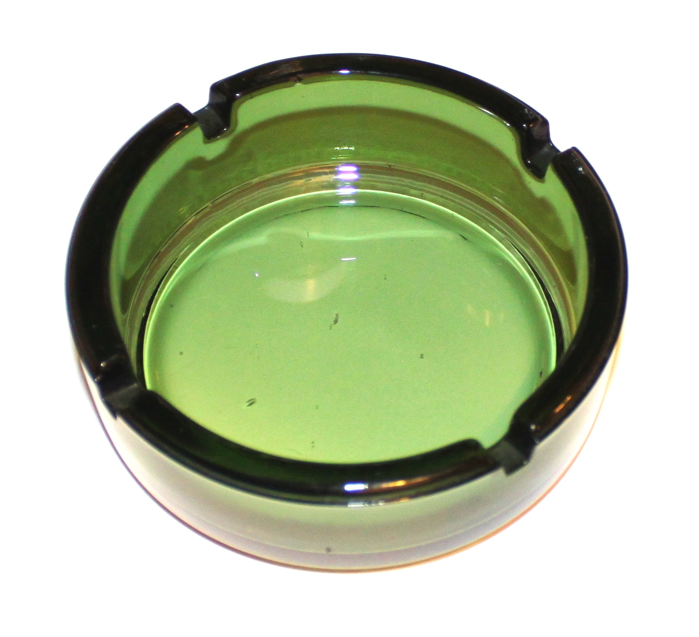 An ashtray made of green glass.